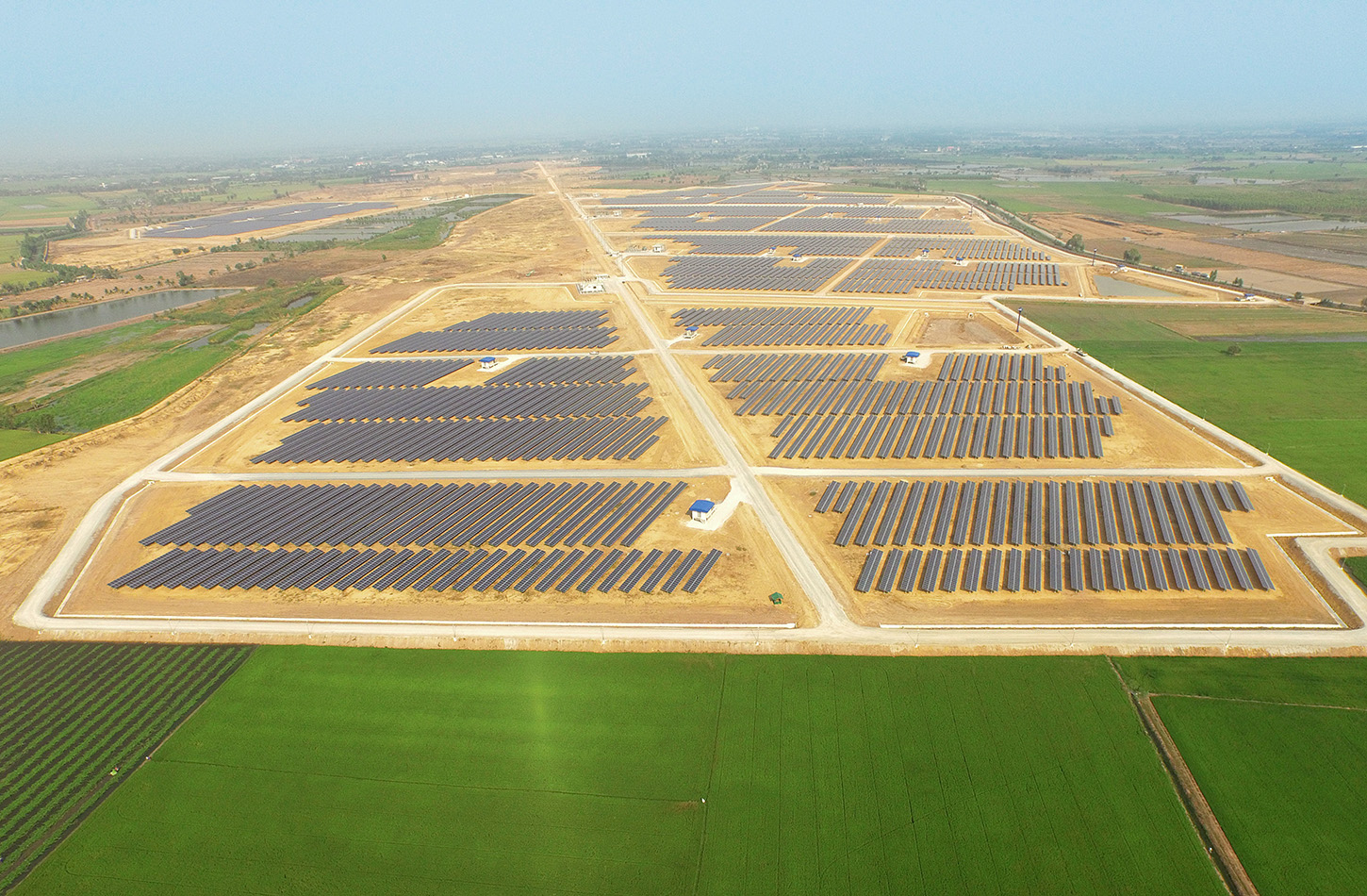 Aerial photograph of Amata B.Grimm's Yanhee solar power plant